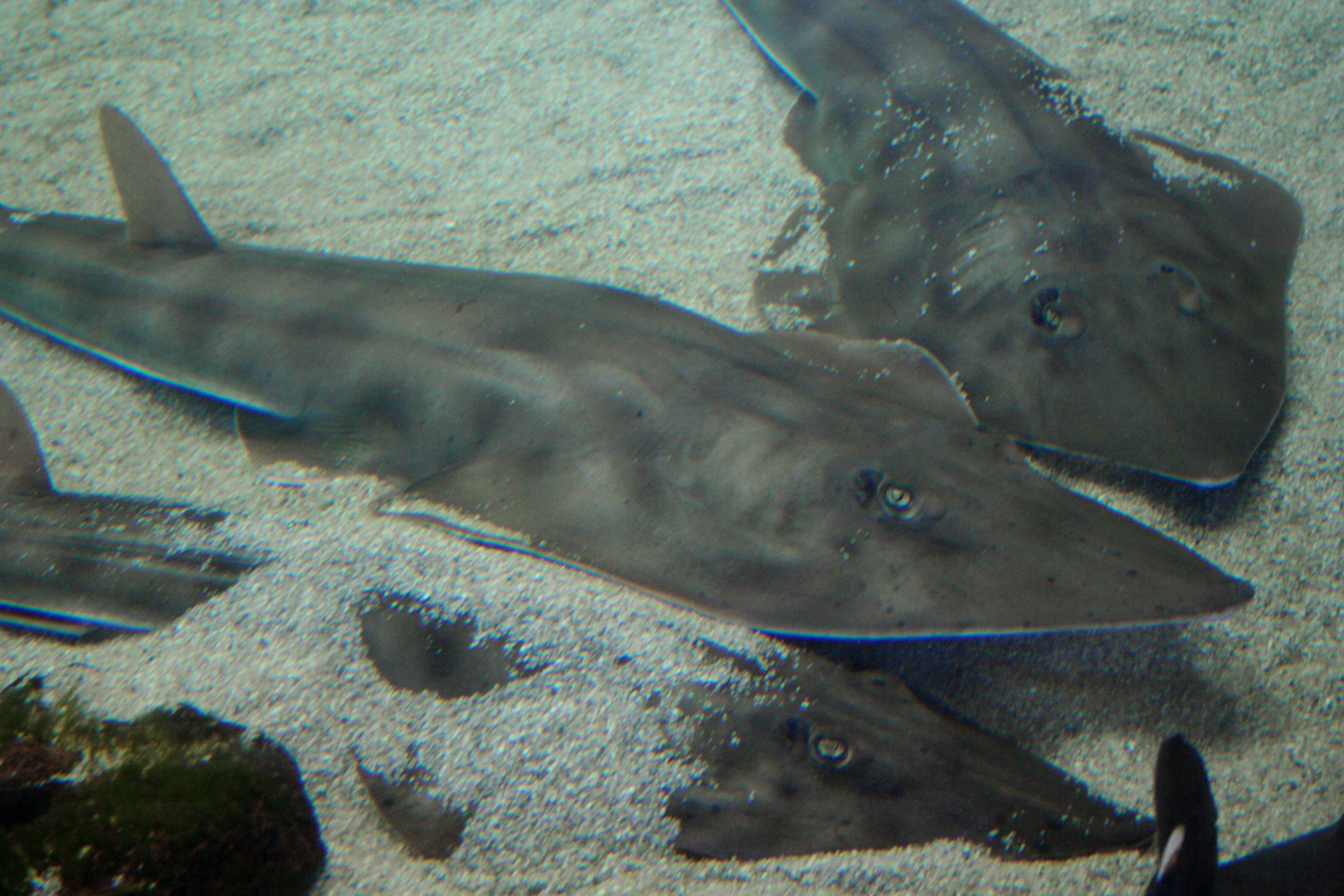 Shovelnose guitarfish (Rhinobatos productus) at the Chula Vista Nature Center, California